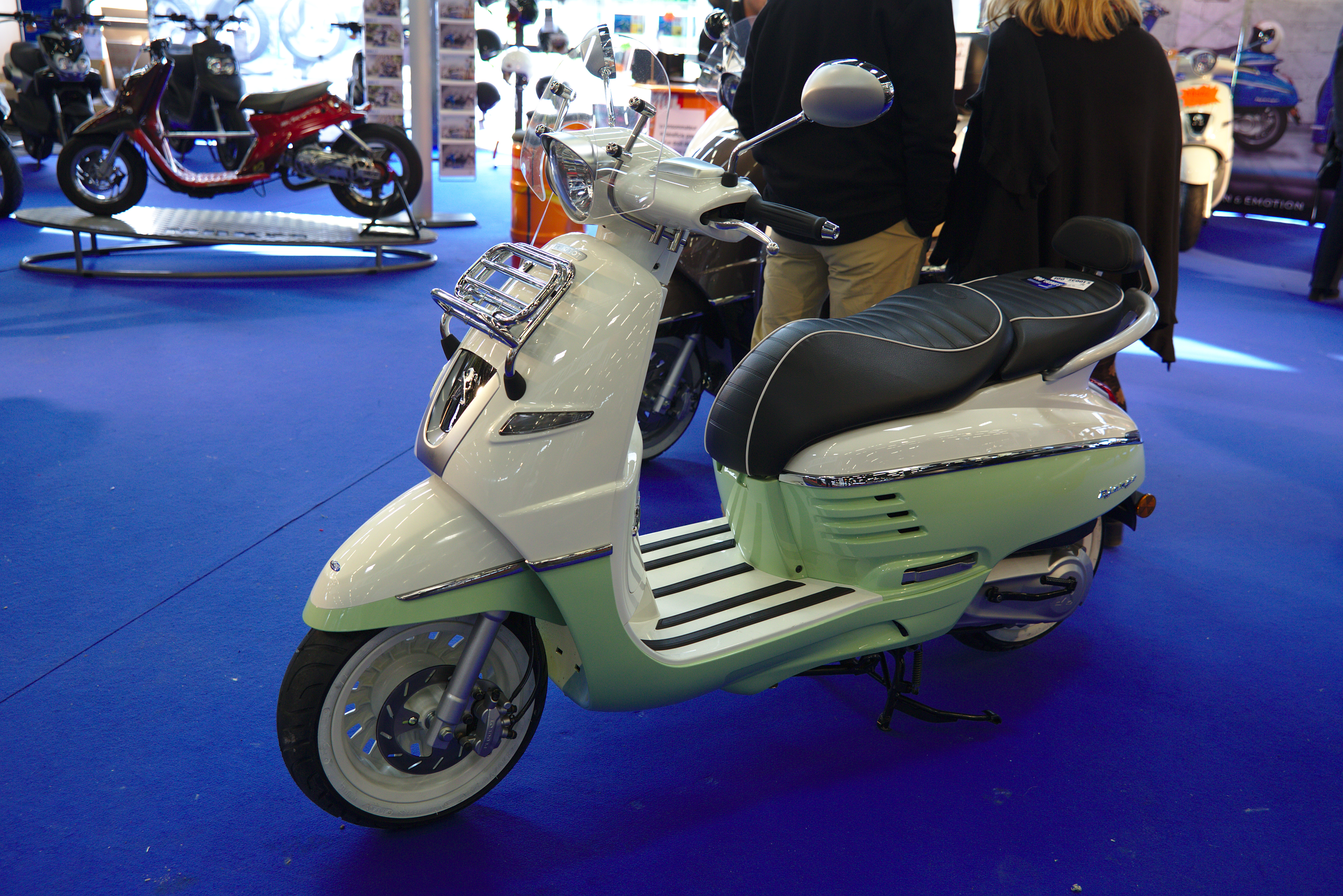 Peugeot Django